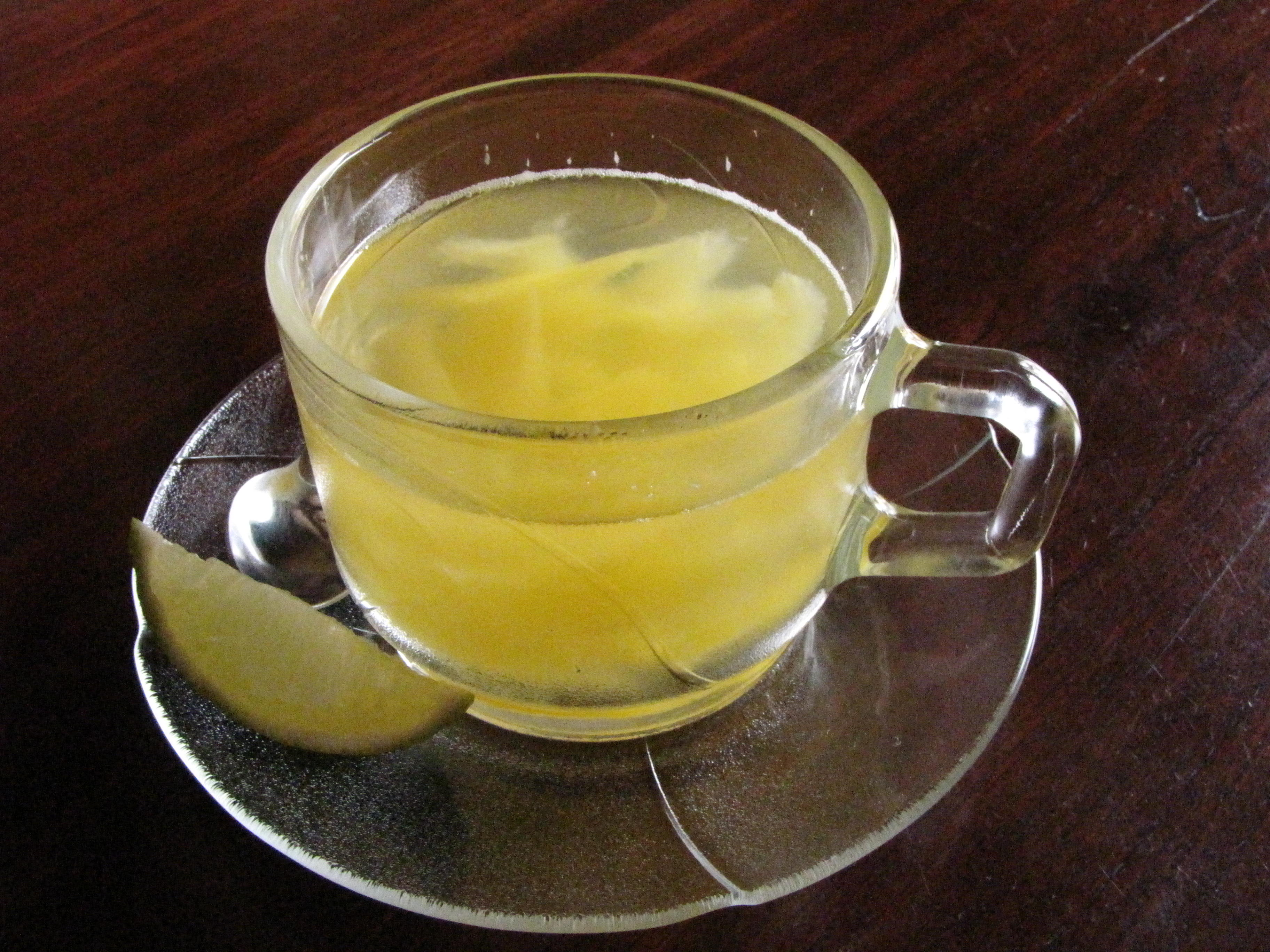 A natural health drink made from a special fruit, papayuela. Very delicious and healthy. Served hot. Lemon on the side may be added. I found this drink in Villa de Leyva, Colombia. IMG_8023